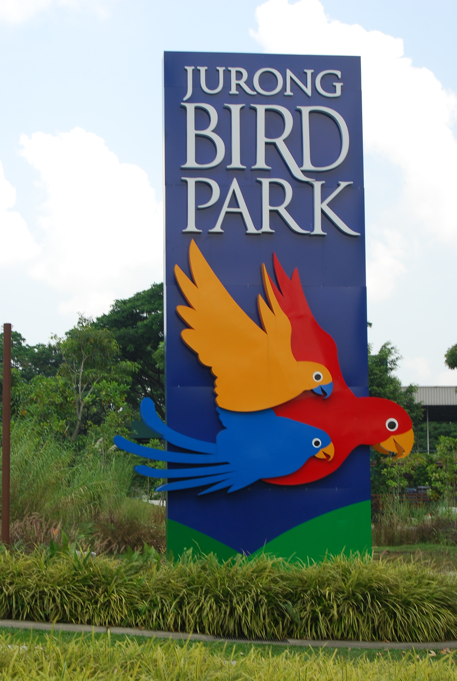 Display board at the entrance of Jurong Bird Park, Singapore